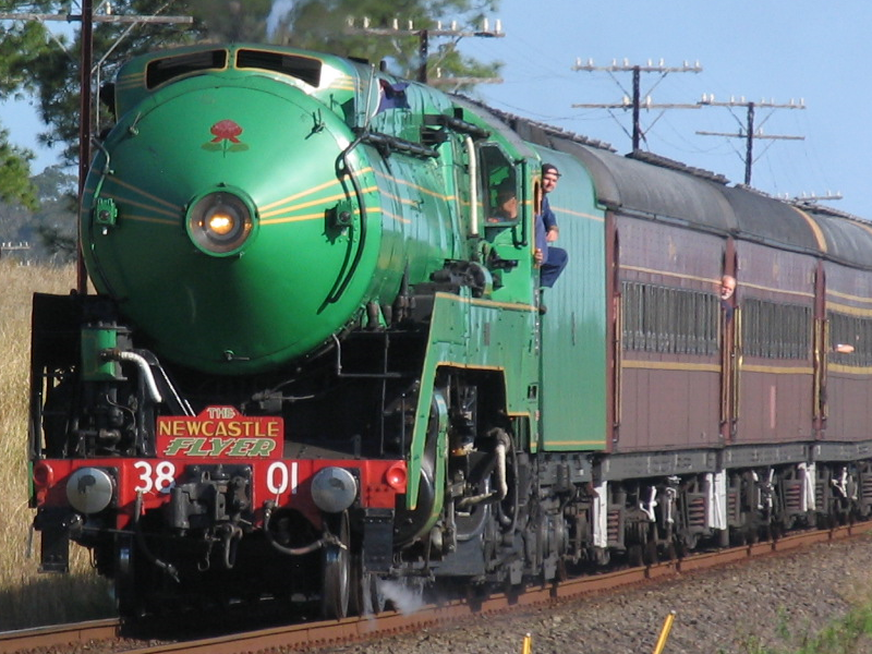 3801 leads the Newcastle Flyer